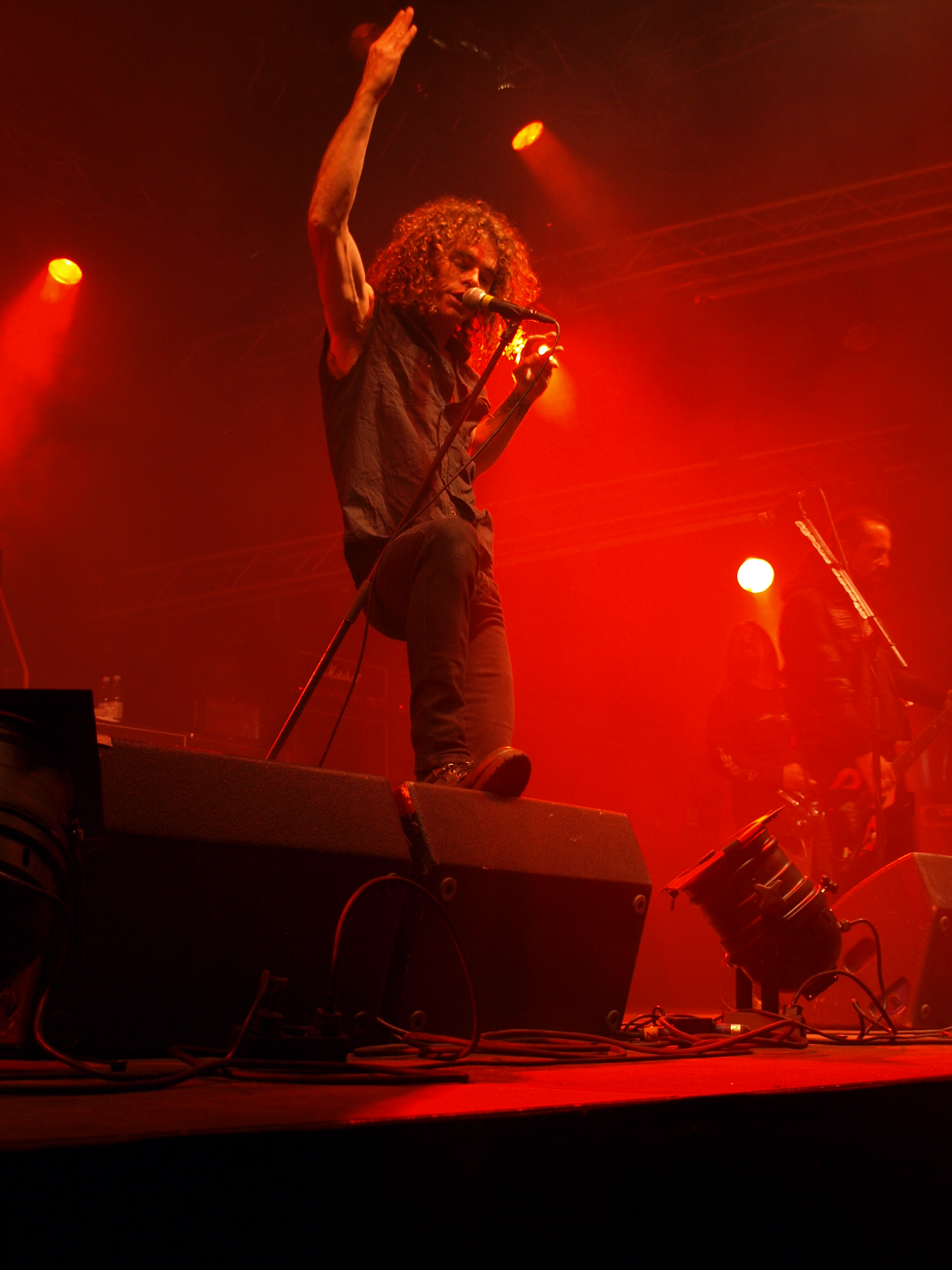 American thrash metal band Overkill live at Jalometalli 2008 in Oulu.